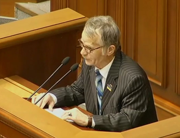 Mustafa Abdülcemil Qırımoğlu (Cemilev), Ukrainian Crimean Tatar politician, during the sitting of Verkhovna Rada Qırımtatarca: Mustafa Abdülcemil Qırımoğlu (Cemilev), Qırım siyasetçiler